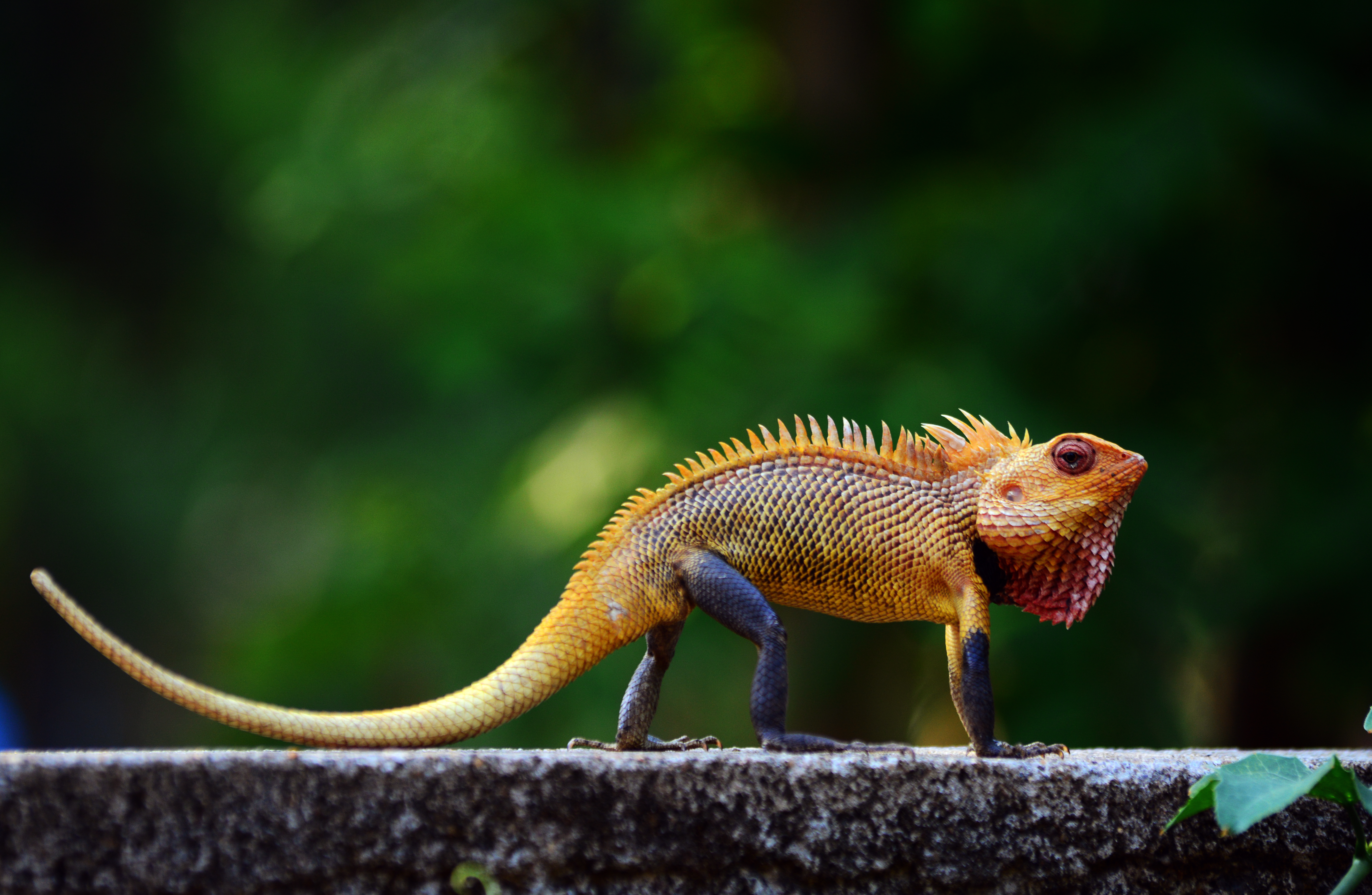 Calotes is a genus of lizards in the draconine clade of the family Agamidae. The genus contains 27 species. Some species are known as forest lizards, others as "bloodsuckers" due to their red heads, and yet others (namely C. versicolor) as garden lizards.